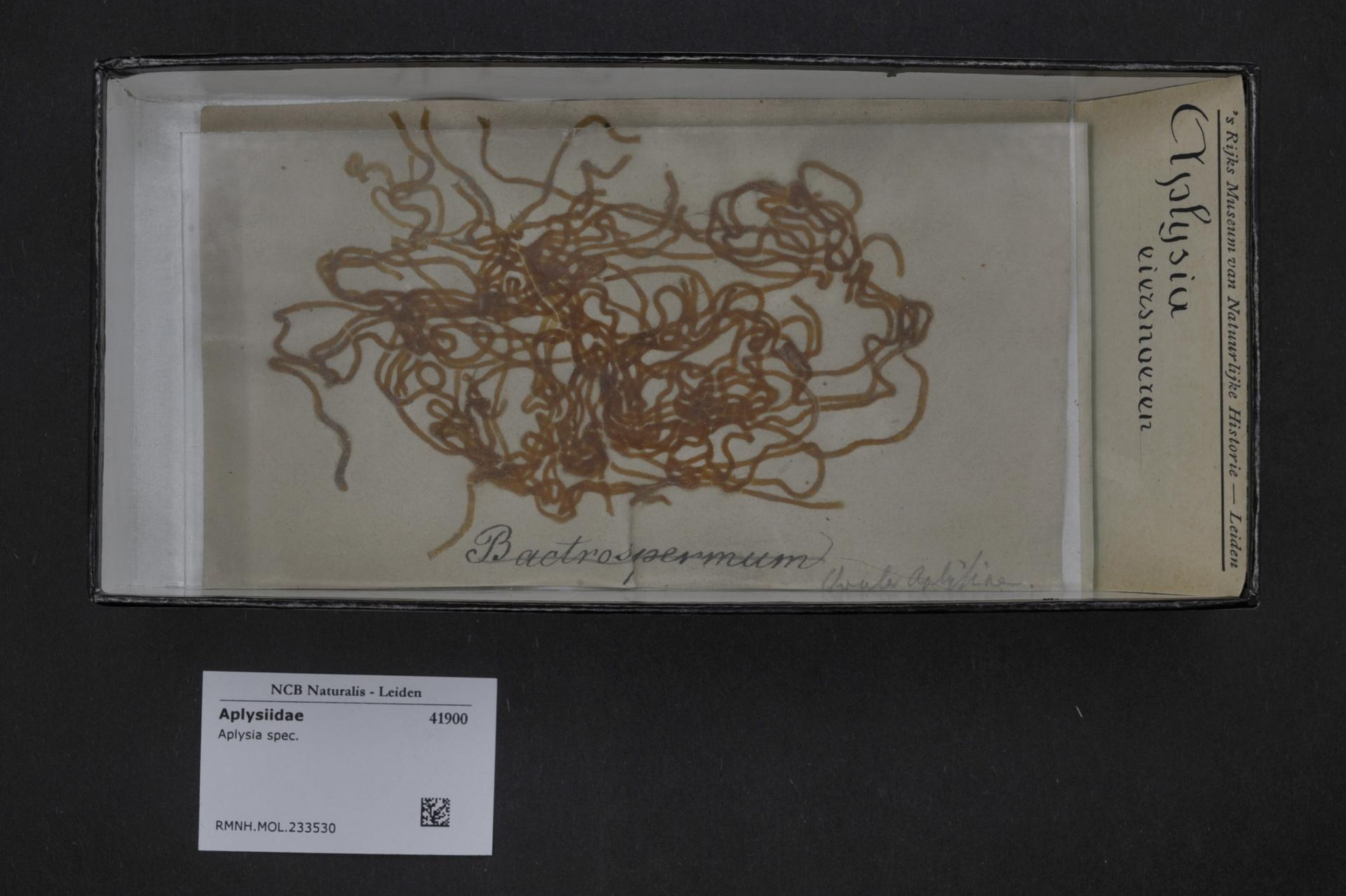 Aplysia spec., eggs